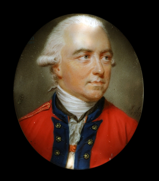 General Sir Henry Clinton, Commander in Chief of the British Forces in the American Revolution, 1778-1782.